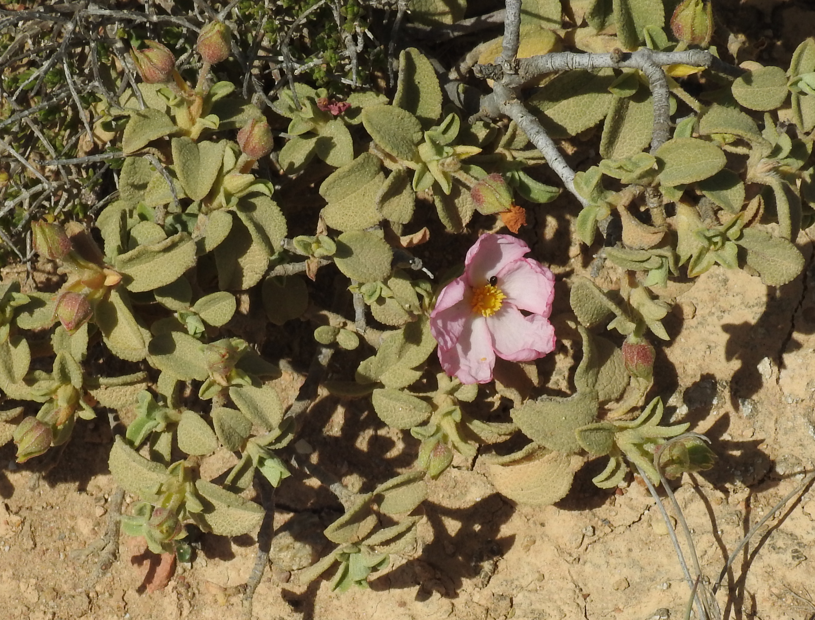 Cistus parviflorus, NE Crete, Greece